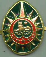 Chechen Army cap badge